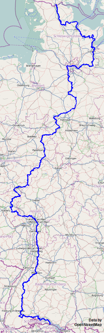 European walking route E1 - Part Germany